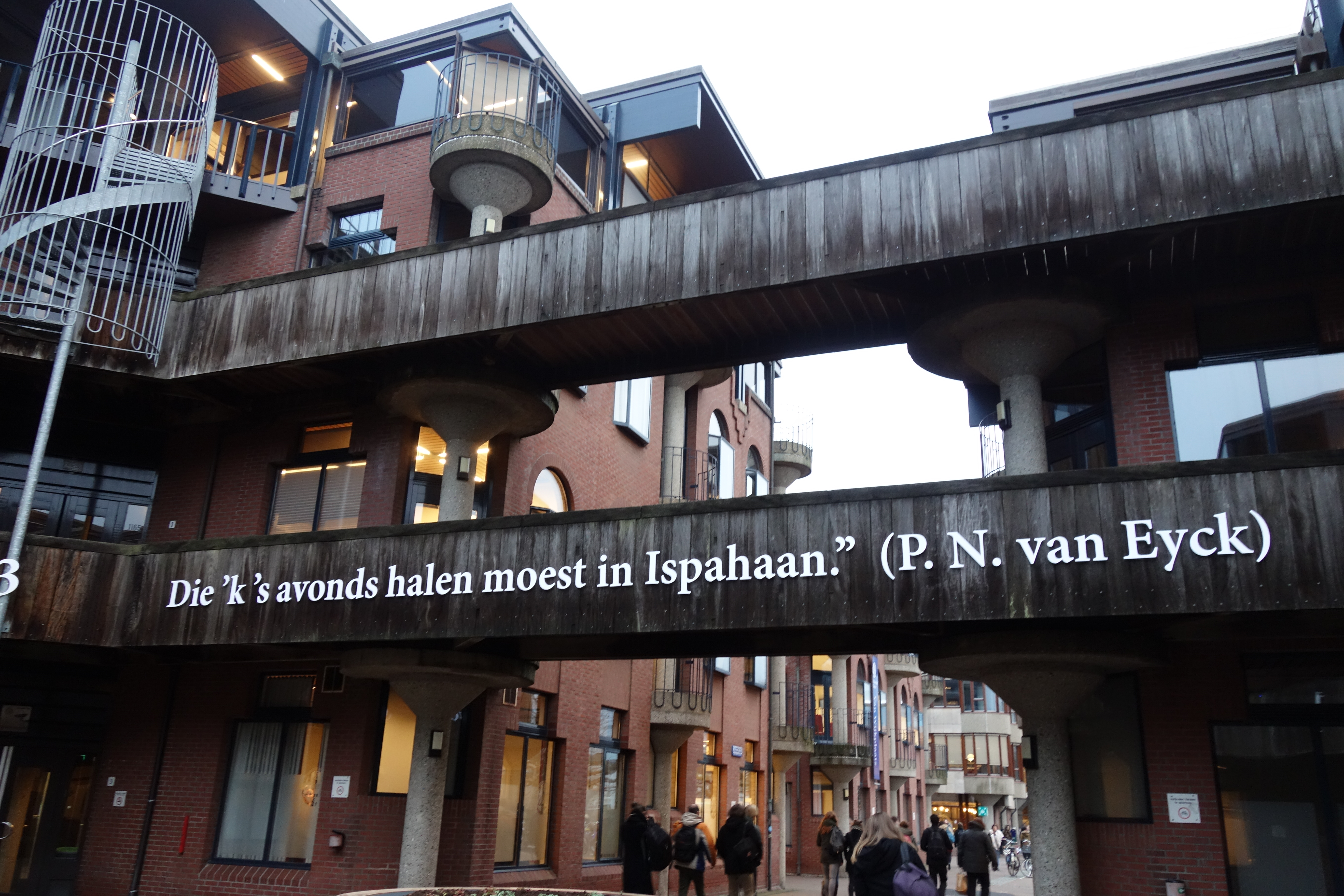 Faculty of Humanities, Leiden University. P.N. van Ecykhof, with a verse from the poem De tuinman en de dood by P.N. van Eyck